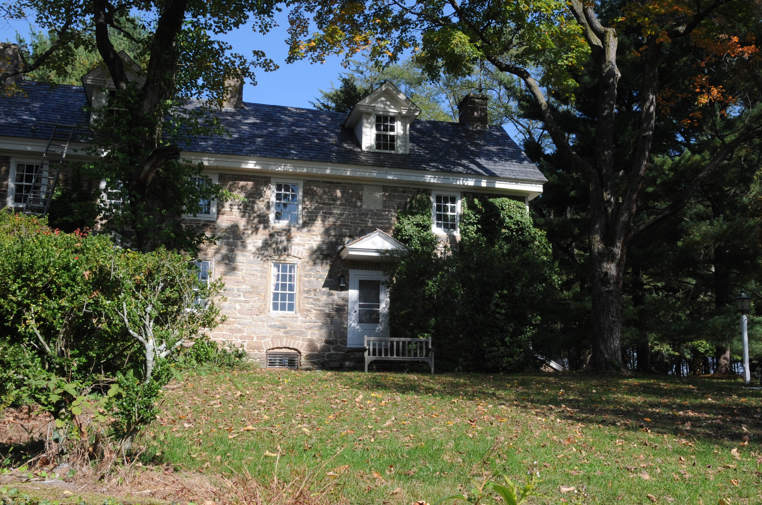 DATESTONE FARM - GEORGIAN HOME DATING FROM THE EARLY 1700’S AND ALSO DESIGNATED AS THE THOMAS AND LYDIA GILBERT FARM; LOCATED IN HOLICONG